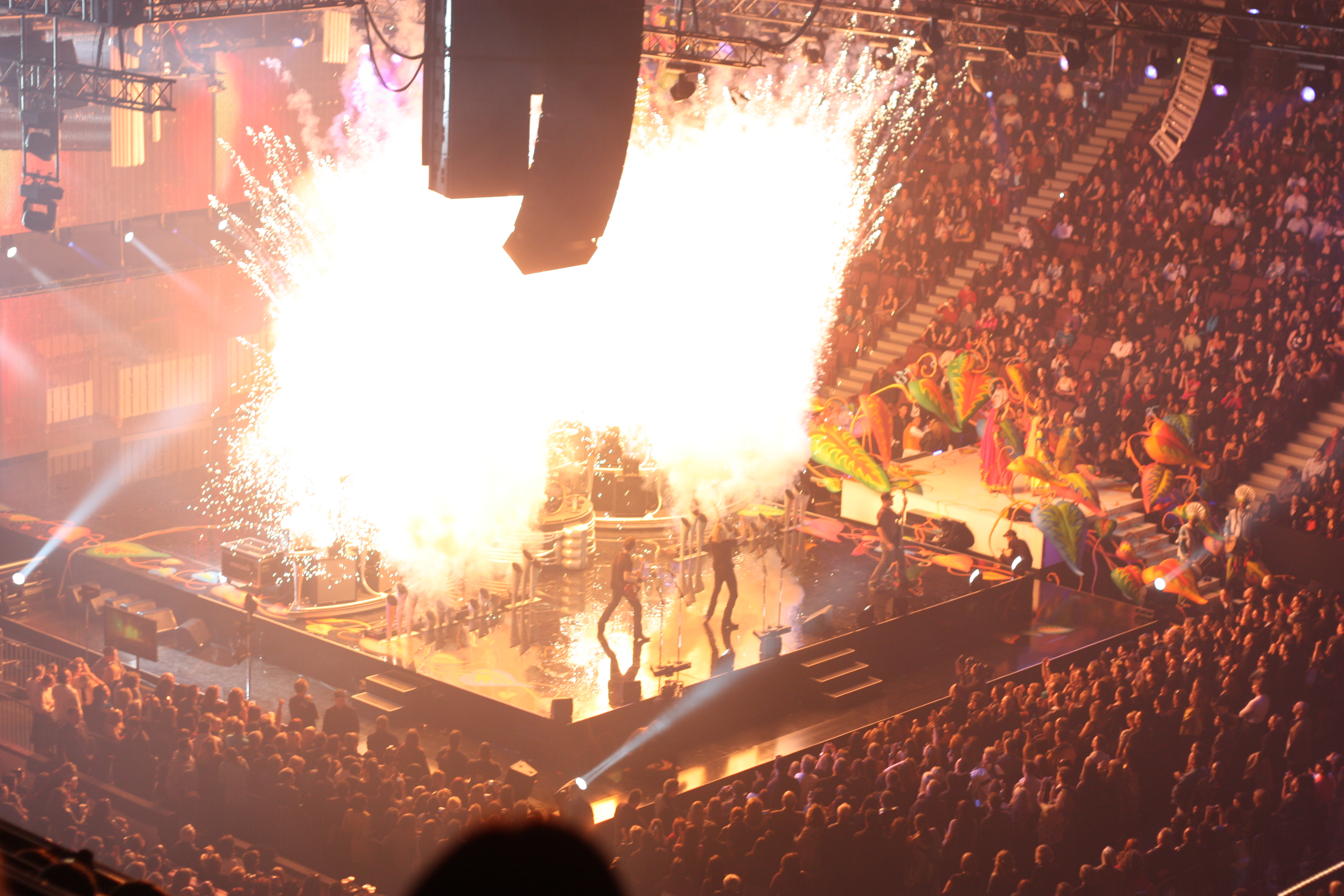 Nickelback performing at the 2009 Juno Awards in Vancouver, British Columbia, Canada.